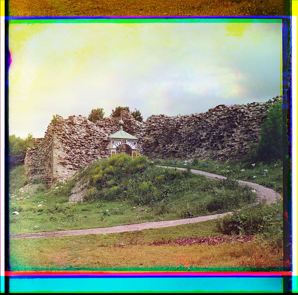 Riurik fortress around the Church of Saint George. [Staraia Ladoga, Russian Empire]